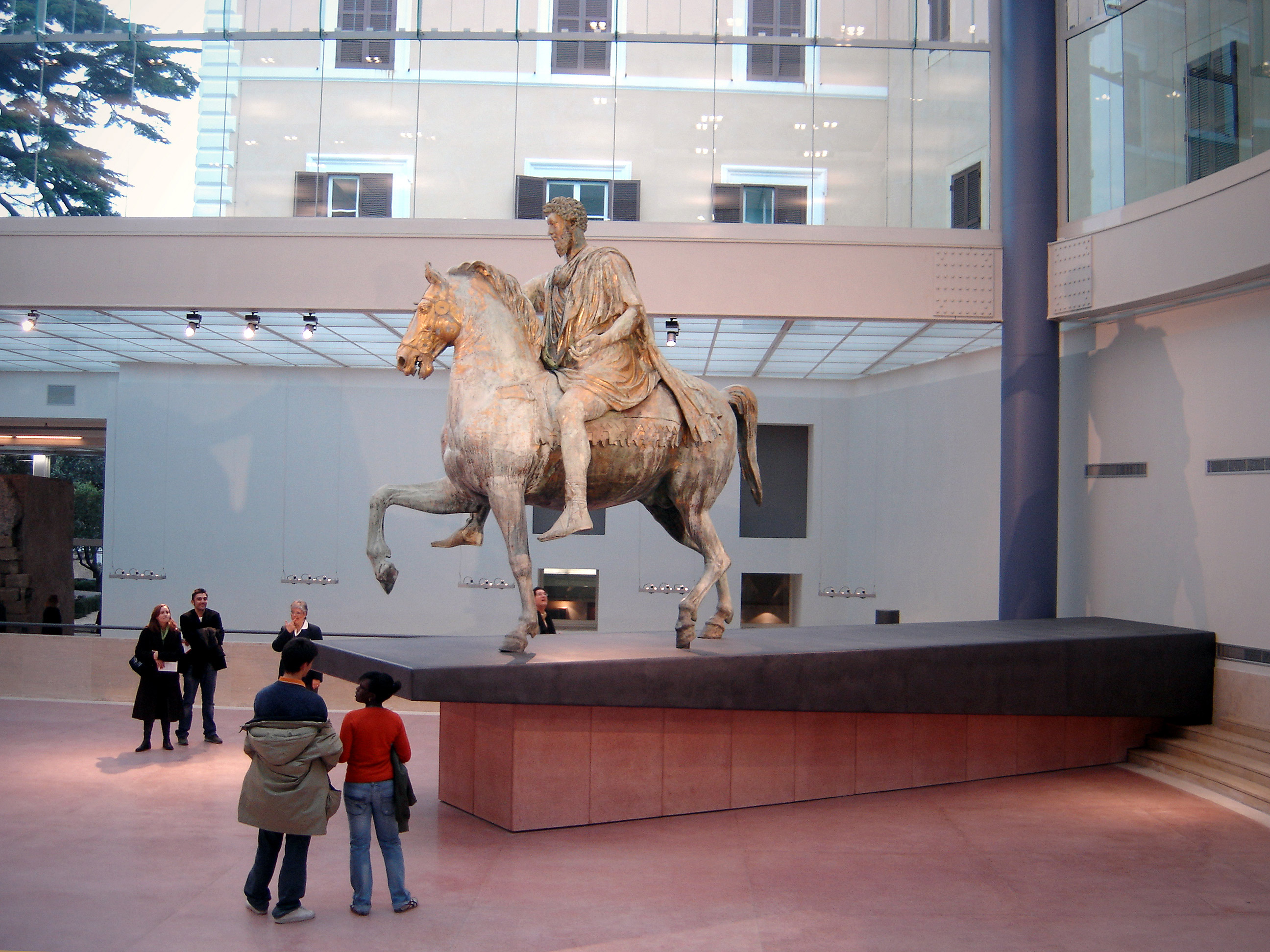 Original statue of Marcus Aurelius, Musei Capitolini, Rome